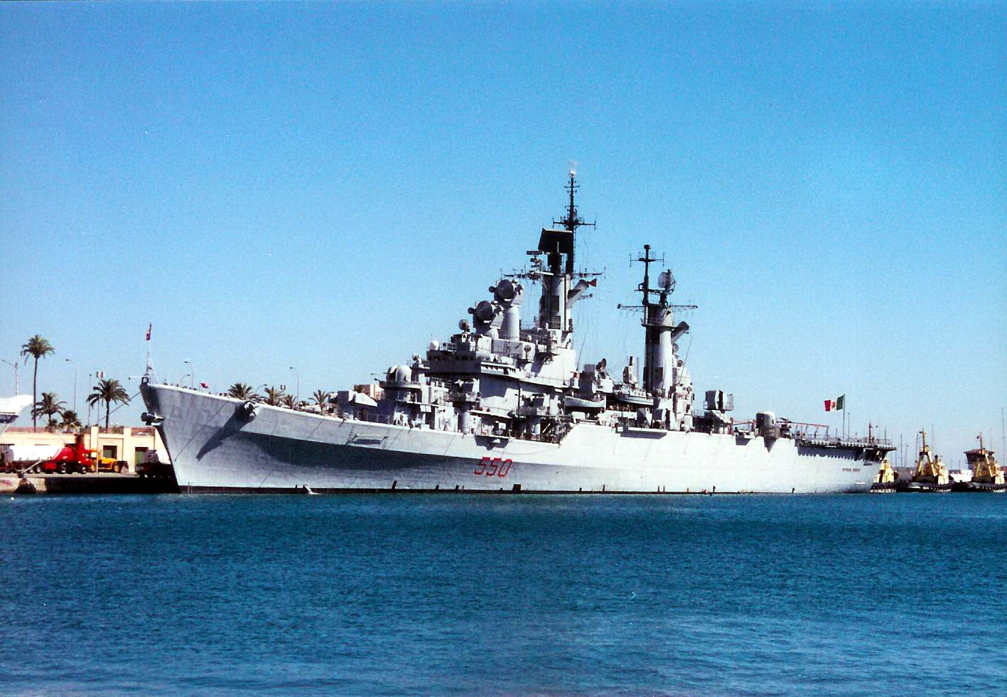 Italian cruiser Vittorio Veneto in the port of Malaga